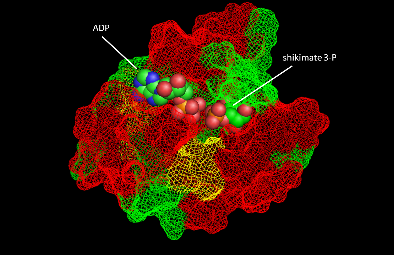 Mesh space-filling representation of shikimate kinase from Mycobacterium tuberculosis (PDB code 2IYZ). Created by Nicholas Bonawitz December 8, 2011 using Pymol v1.4.1.